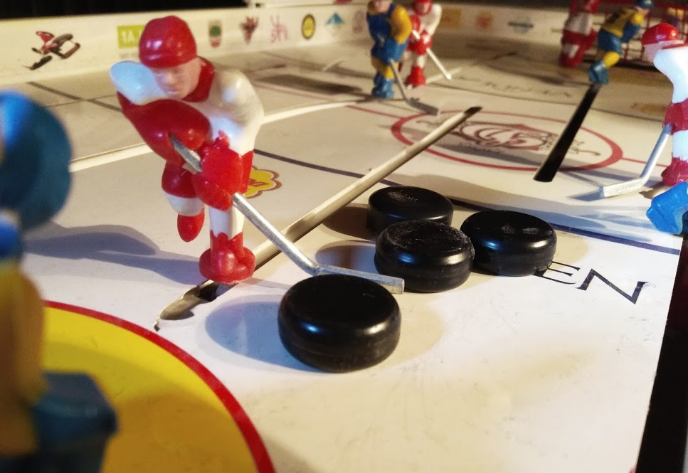 Table hockey pucks from Stiga on an used playing ground.